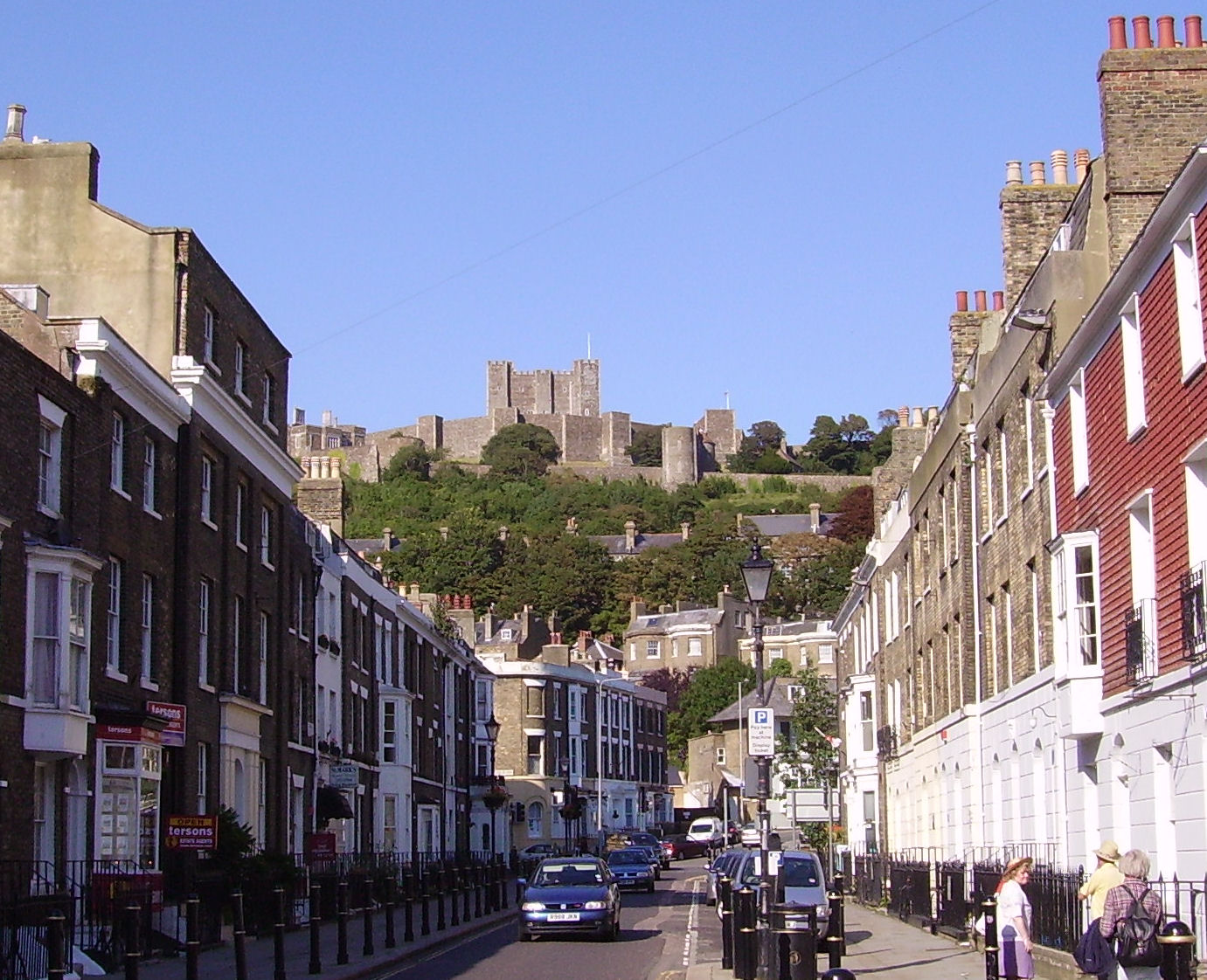 view of Dover, United Kingdom